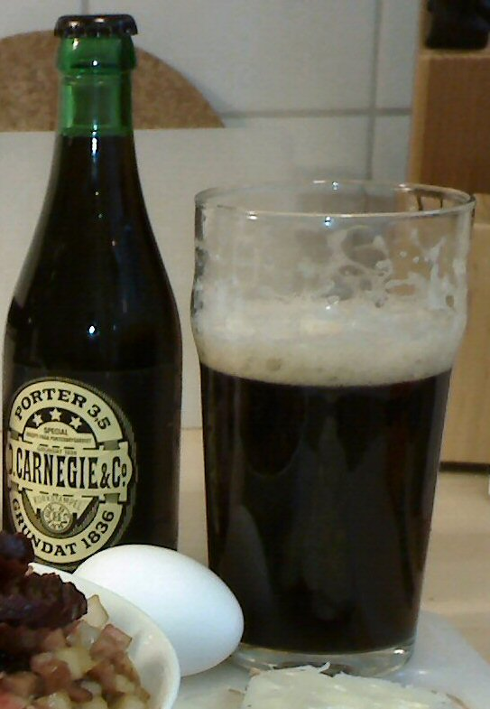 A glass of Porter served to the swedish dish pytt-i-panna.